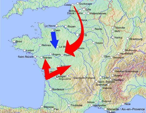 Ilustration of the English army in France in 1370.